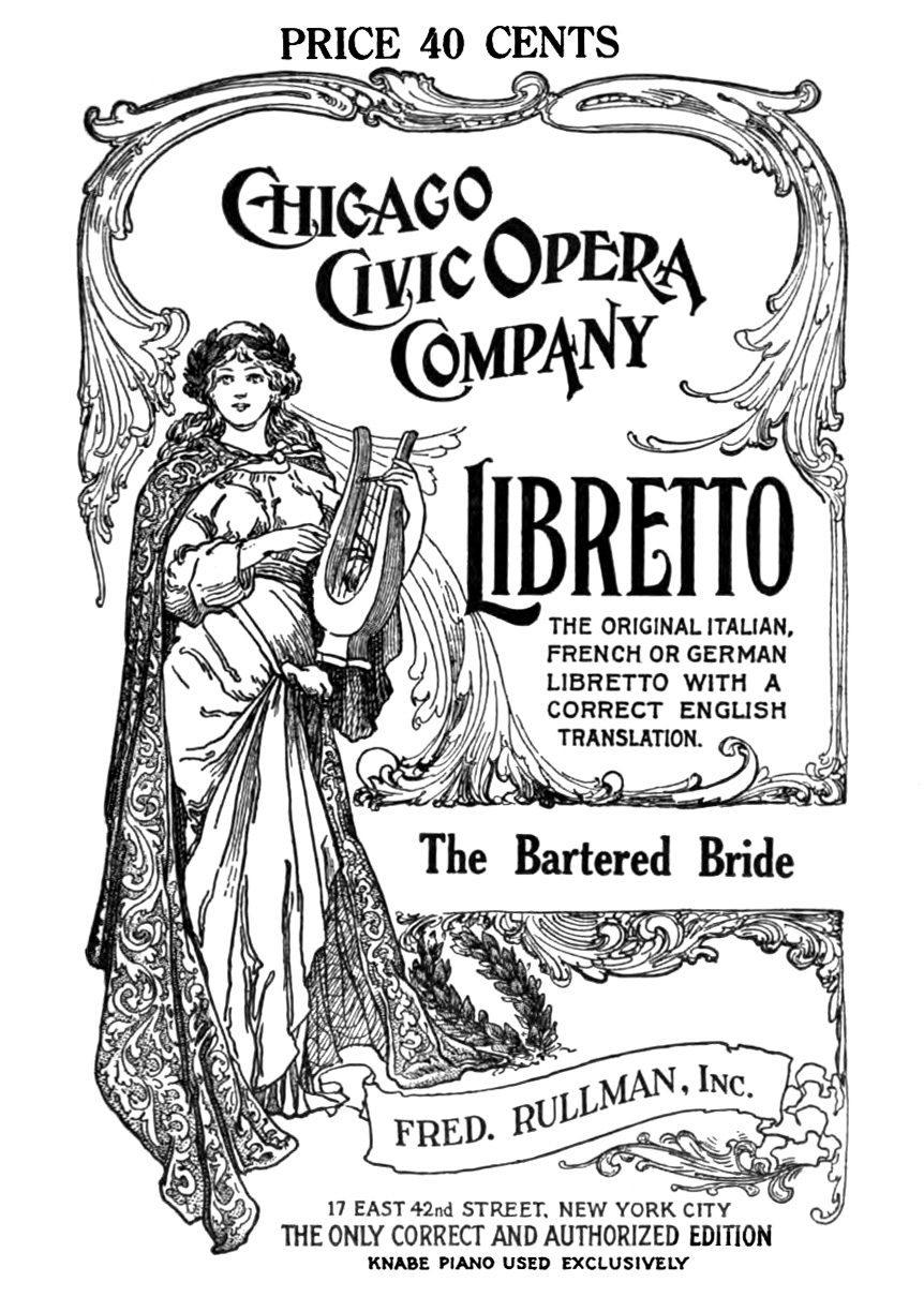 Cover page of the Libretto of The Bartered Bride, staged by the Chicago Civic Opera Company. The design is a standard template from the publisher.